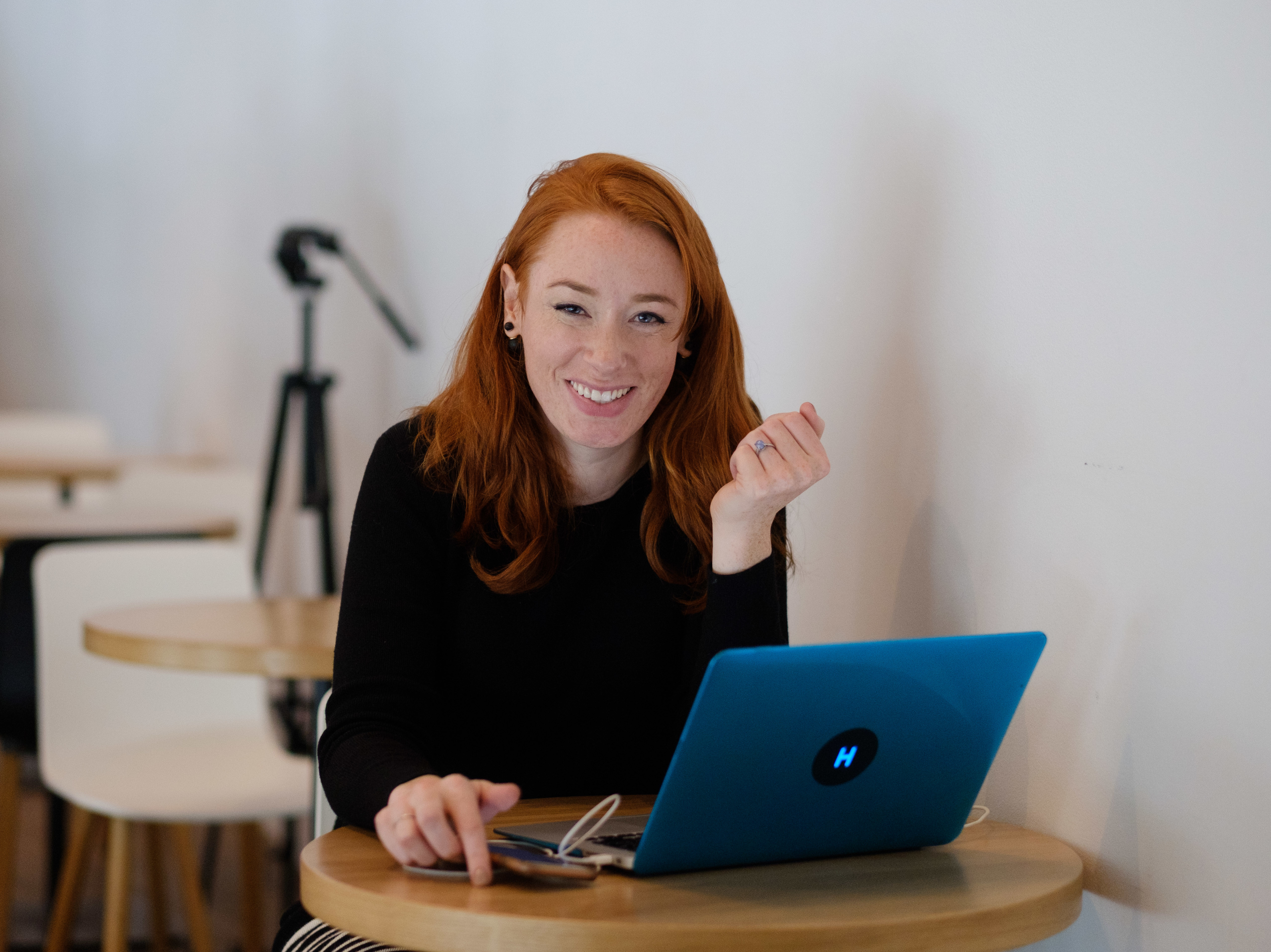 The European Data of Tomorrow Conference was both an educating and inspiring event about information, data and all its relevant, innovative and value-adding aspects. Data of Tomorrow gave attendees a glimpse of the future of Master Data Management (MDM), technology and industry trends – and the tools to shape it. The conference took place on September 20 and 21 in the EYE filmmuseum in Amsterdam, The Netherlands.